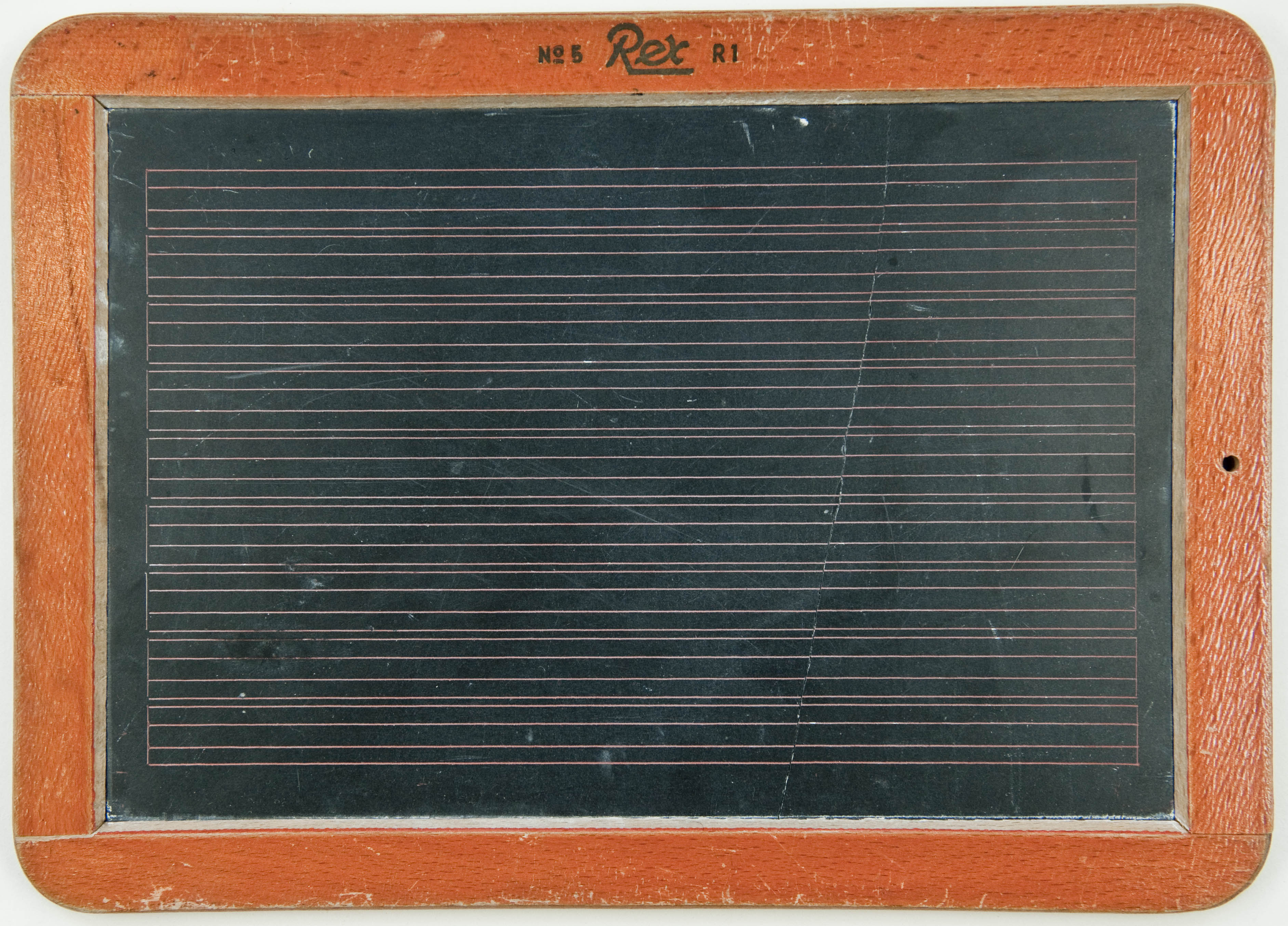 Toys from the late 1950s - slate